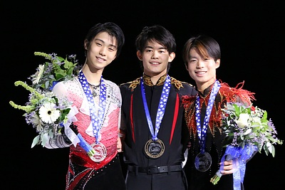 The Mens podium at the 2012 Skate America. From left: Yuzuru Hanyu (2nd), Takahiko Kozuka(1st), Tatsuki Machida(3rd)